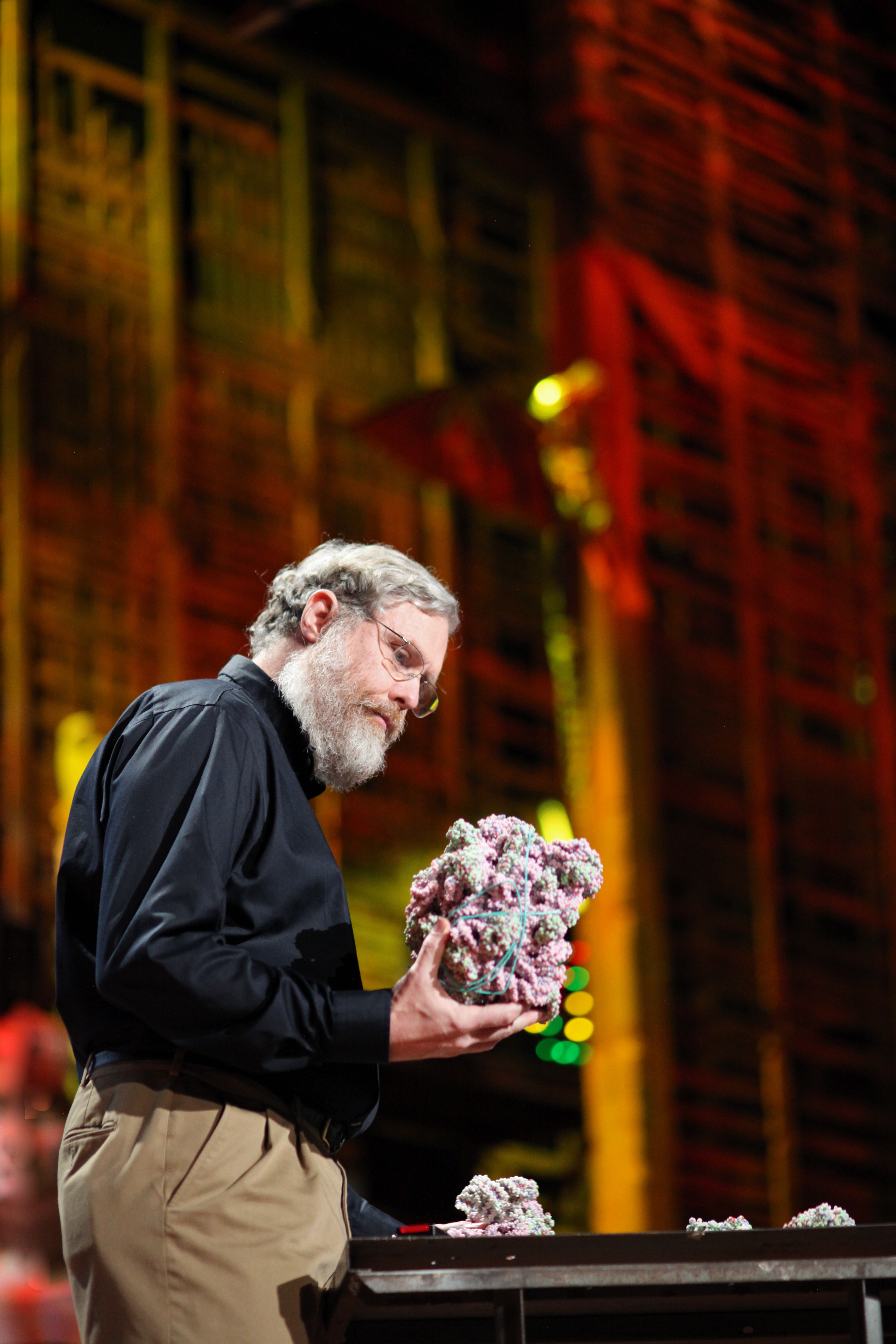 George Church looks at a molecular model at TED 2010